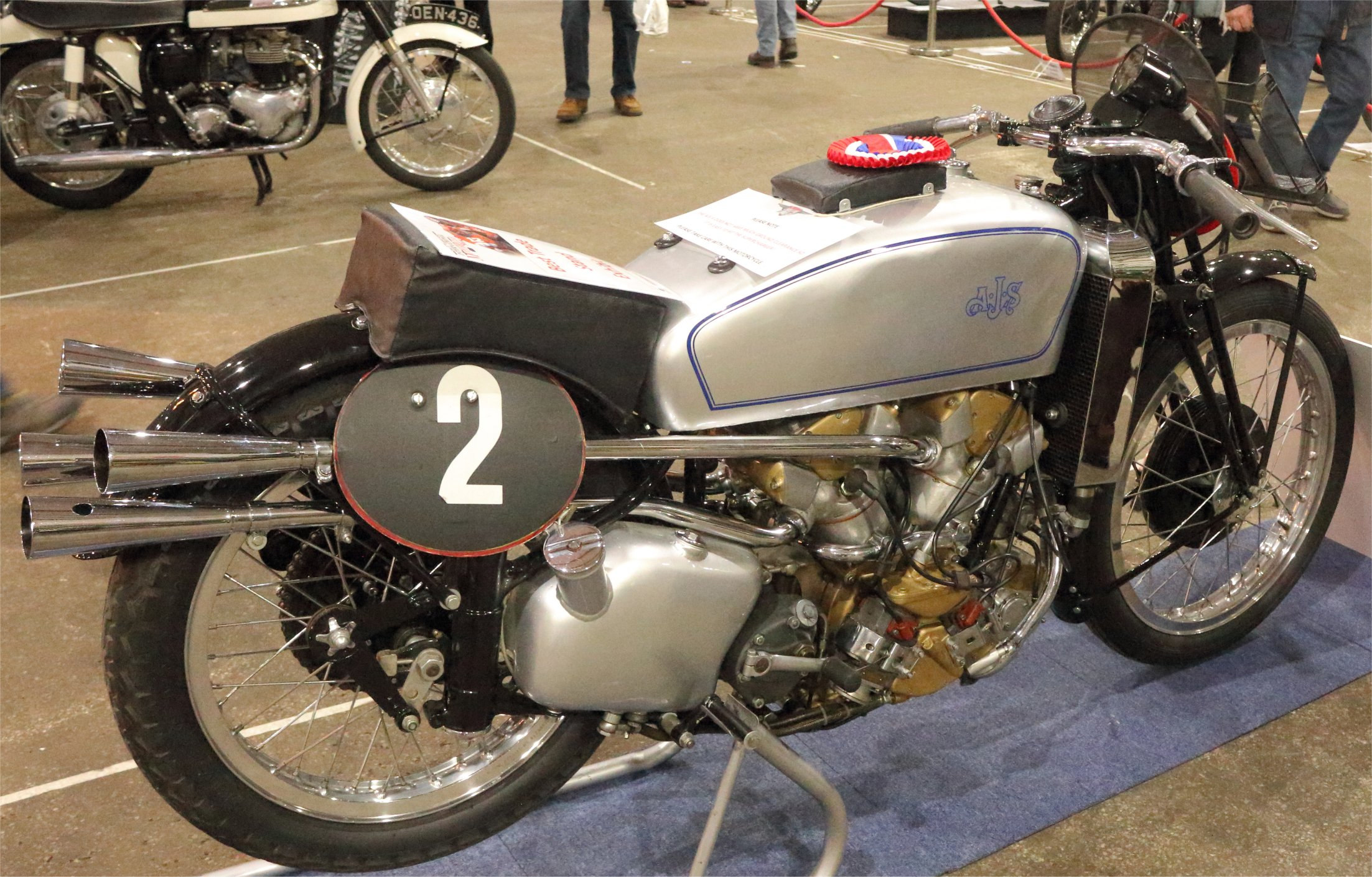 First raced in 1939, this water-cooled supercharged V4 500cc racer made by the British AJS company has been restored to fabulous condition. Here seen being exhibited at the Classic Motorcycle Show at Staffordshire Showground, April 2017.